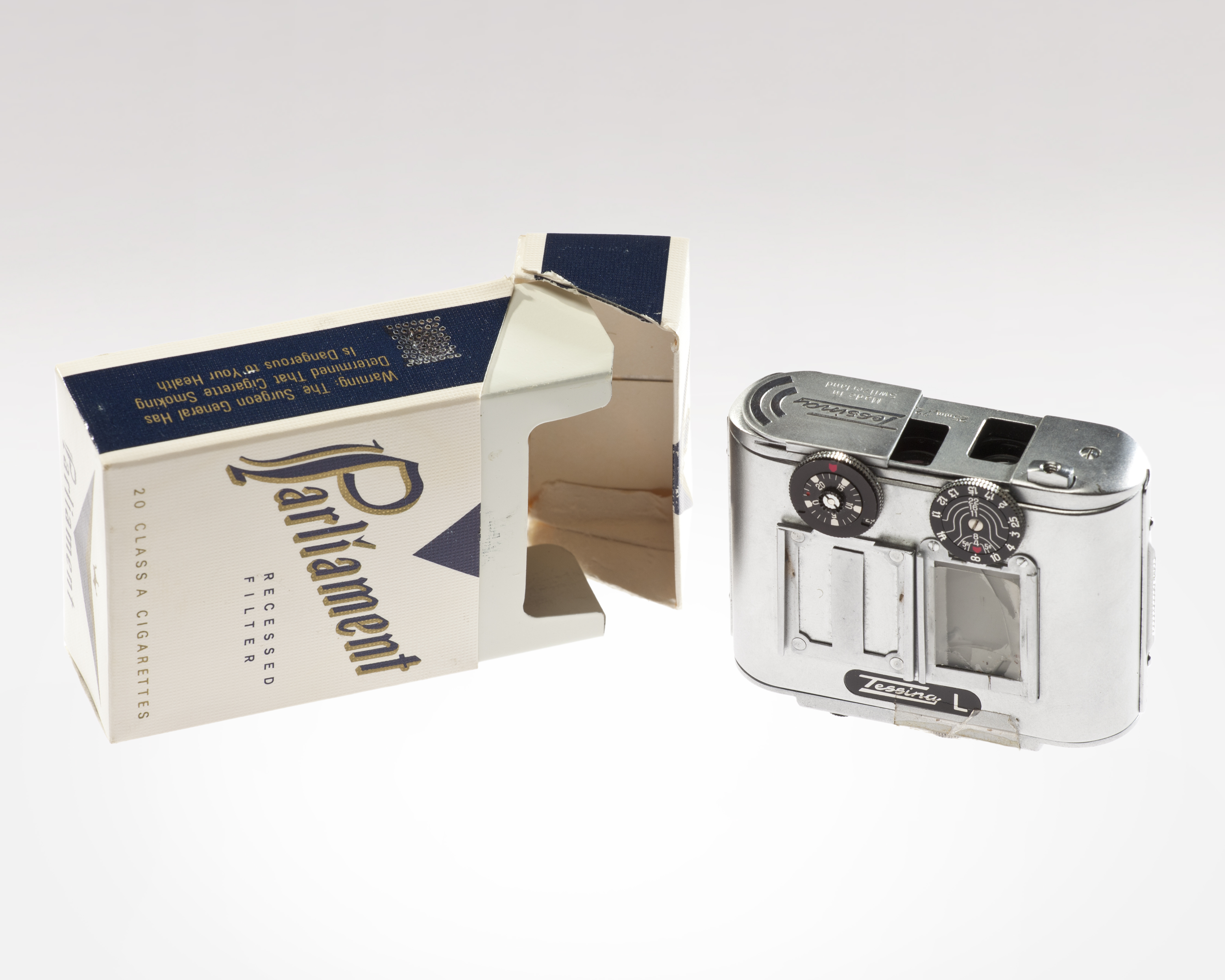 Miniature spring-wound 35-mm film camera in a modified cigarette pack. The Tessina’s small size and quiet operation provided more options for concealment than most commercially available models. For more information on CIA history and this artifact please visit